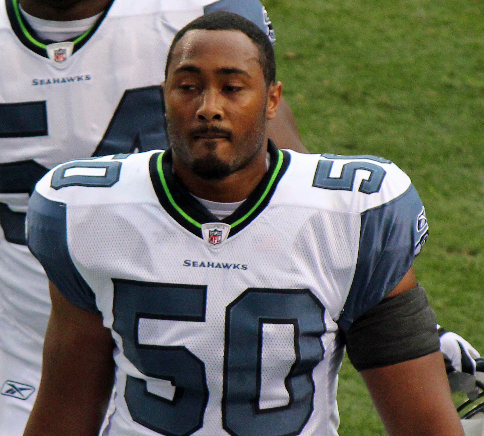 K.J. Wright, a National Football League player.